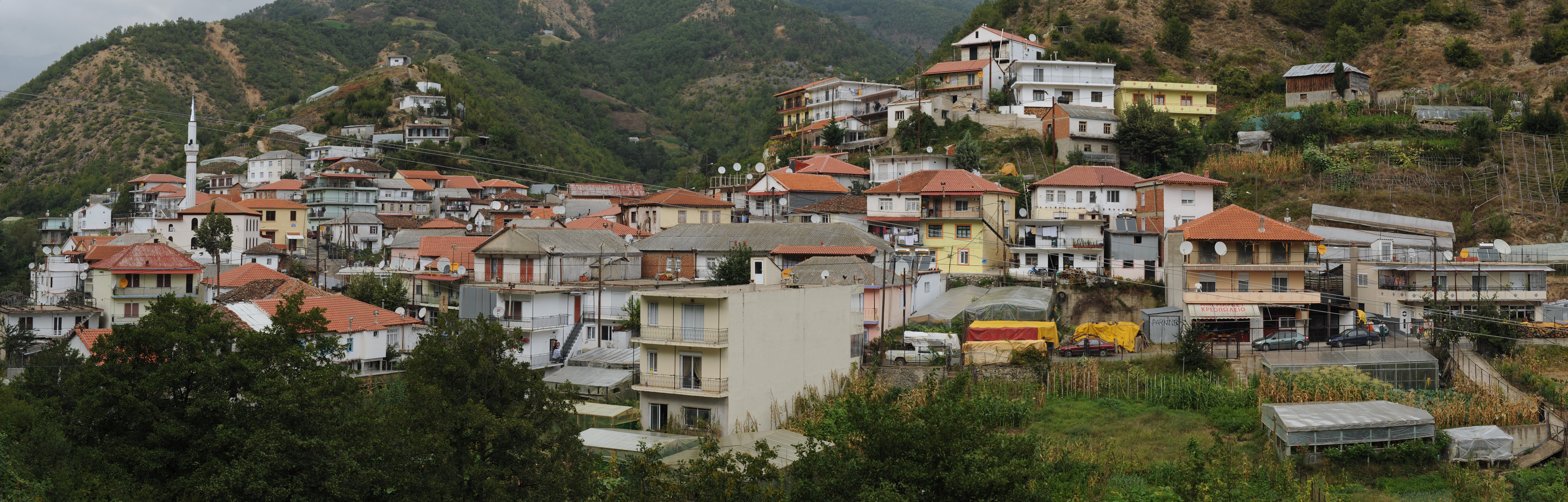 Panorama of Ano Thermes village, Xanthi Prefecture, Thrace, Greece.